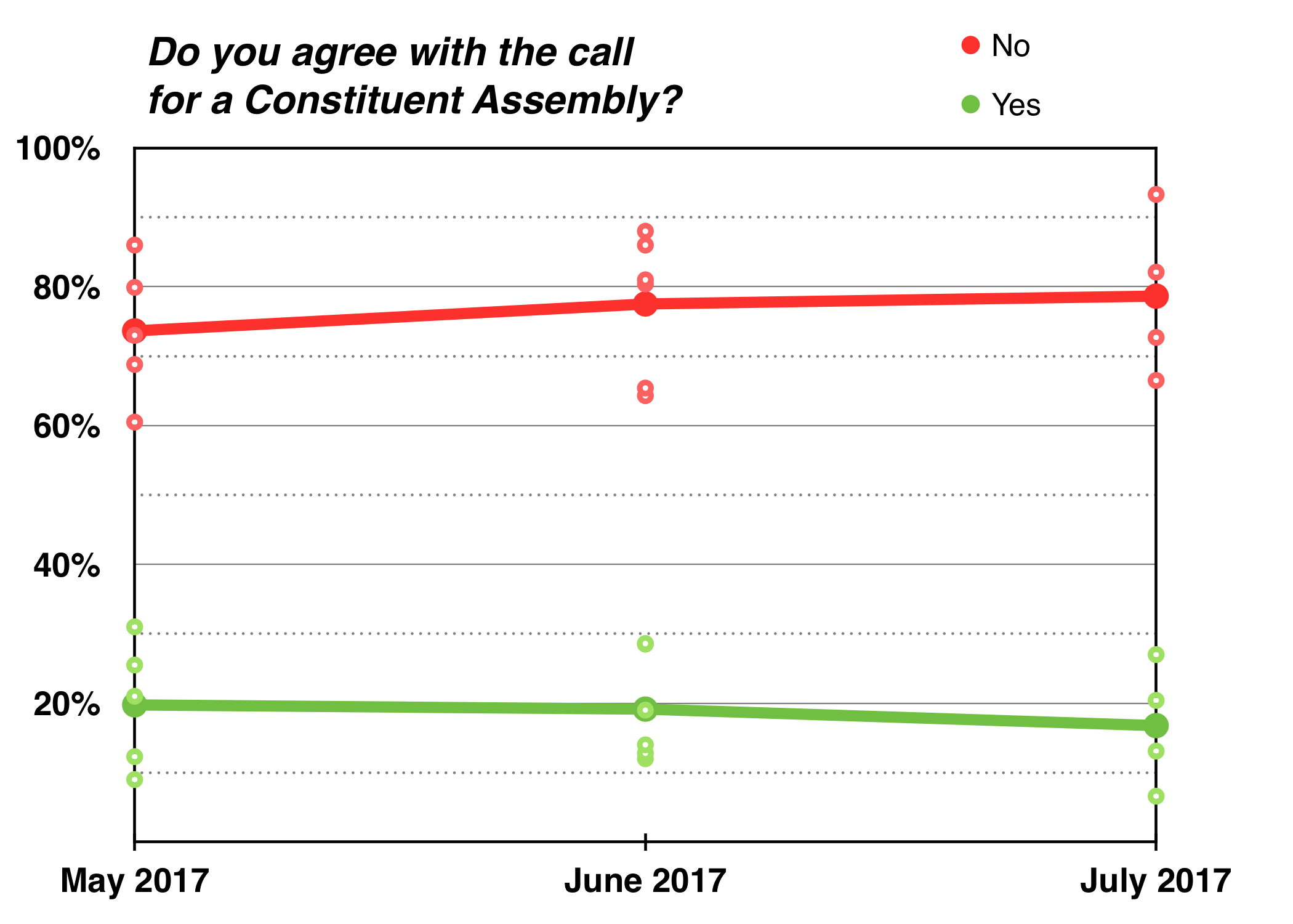 Opinion polls of the 2017 Venezuelan Constitutional Assembly election.